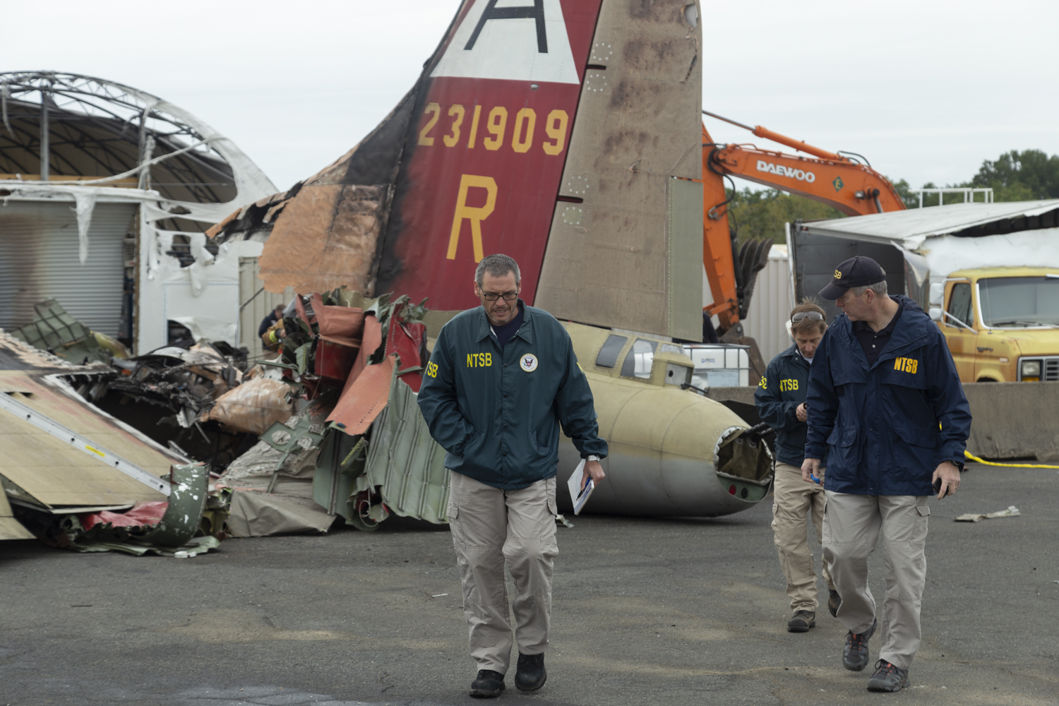 WINDSOR LOCKS, Connecticut (Oct. 3, 2019) NTSB investigator-in-charge Bob Gretz near the site of the Oct. 2, 2019 crash of a B-17 at Bradley International Airport.